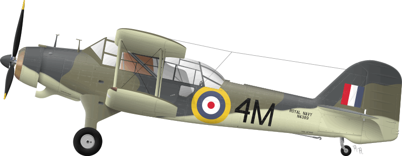 Side profile of Fairey Albacore